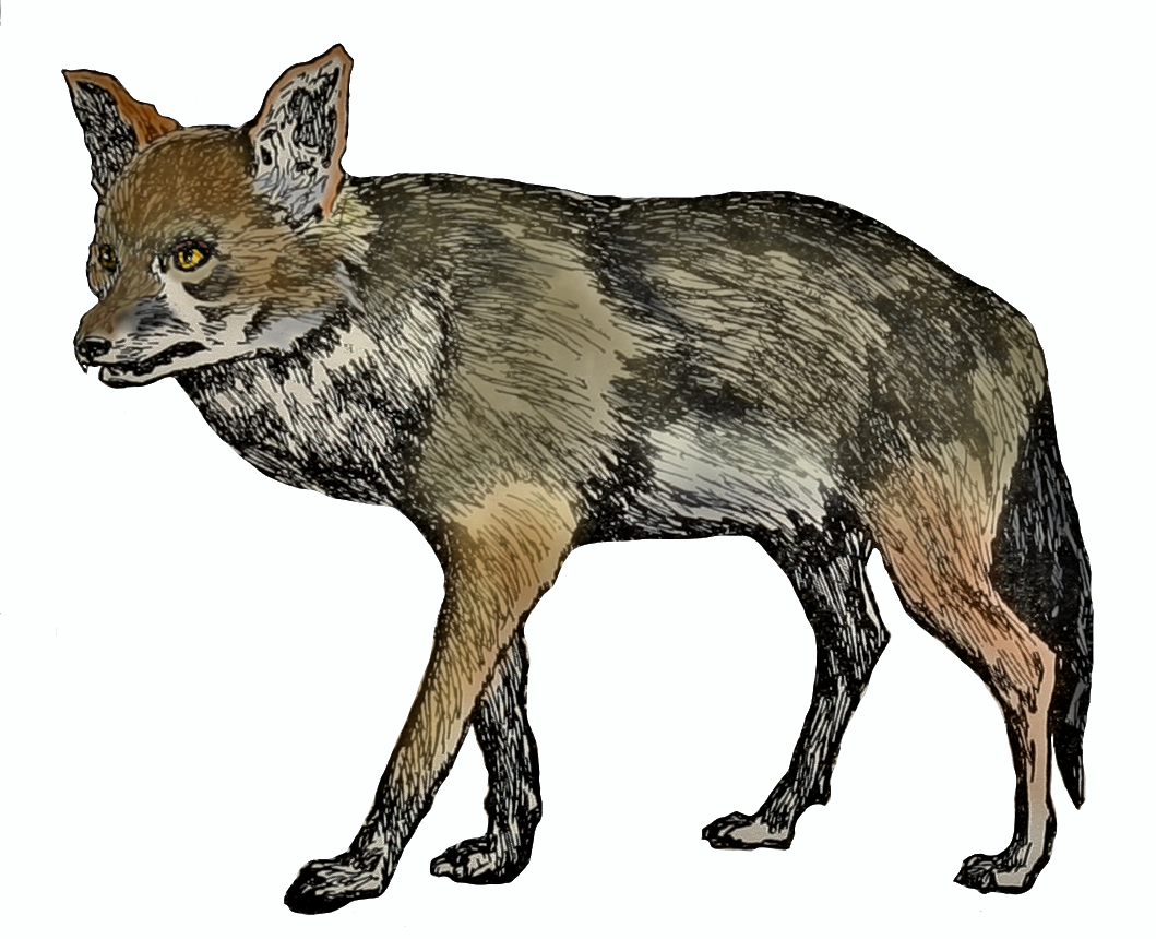 "Good luck go with you, O chief of the wolves."